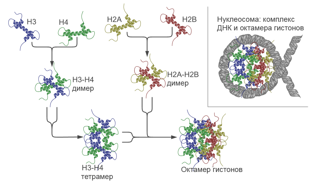 Schematic representation of the assembly of the core histones into the nucleosome